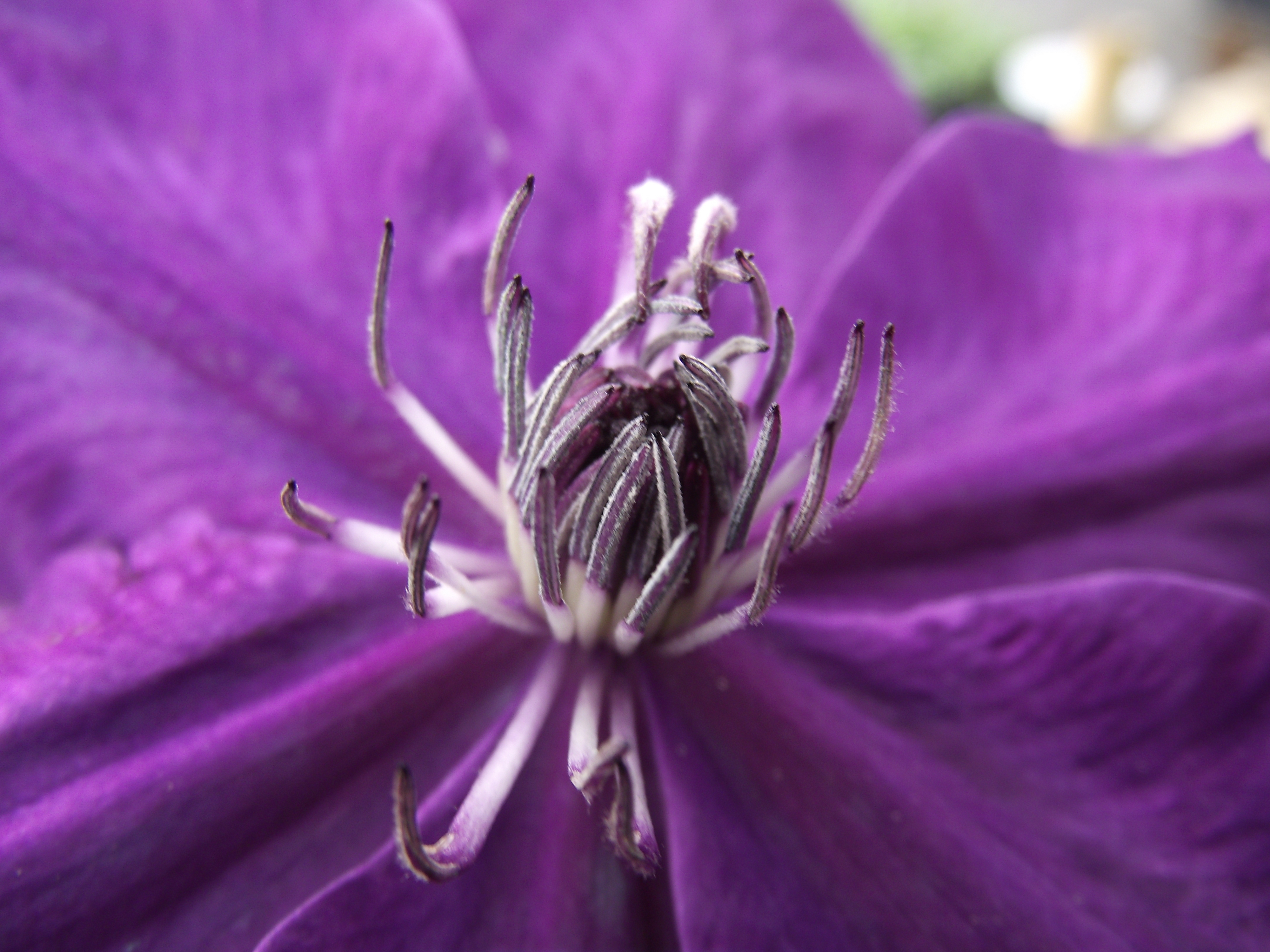 Clematis Amethyst Beauty 'Evipo043'